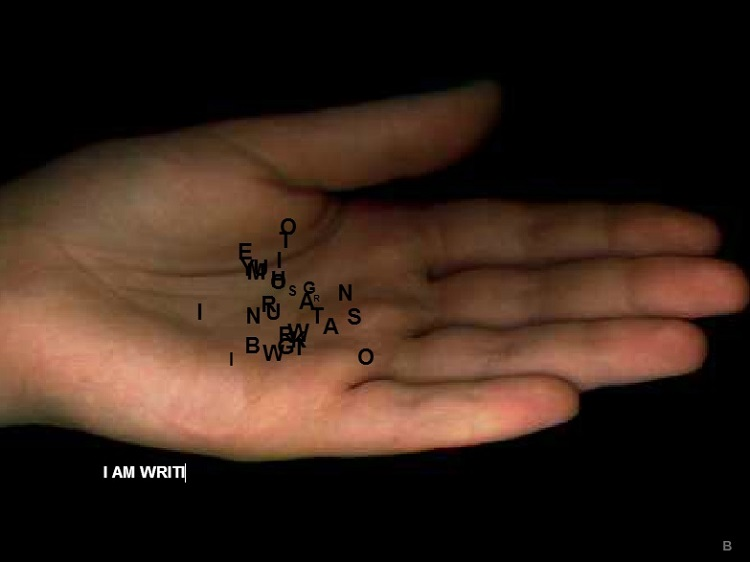 fragment from the exposition